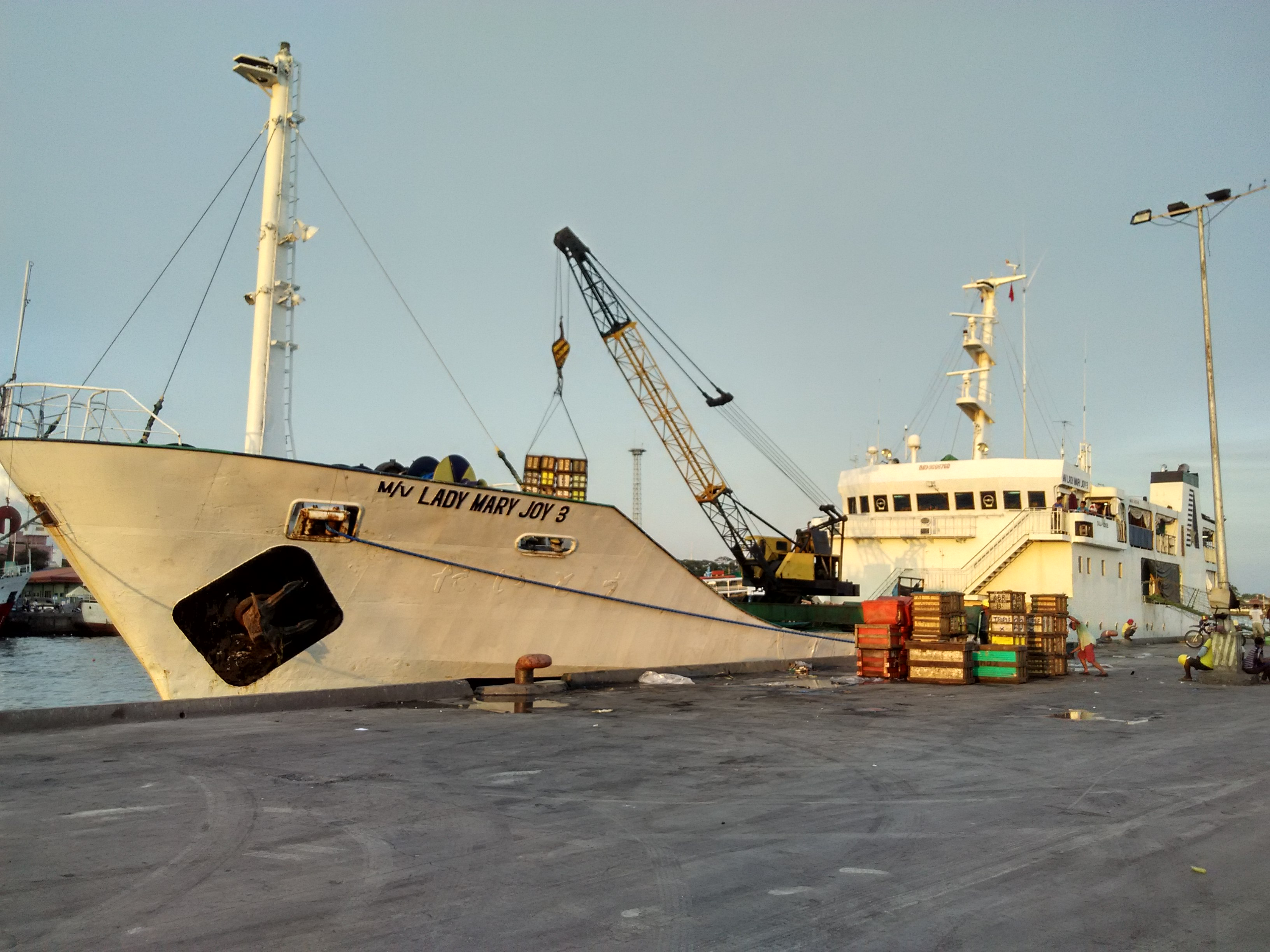 MV Lady Mary Joy 3 at Zamboanga International Seaport, Filipino Ship Enthusiast Coalition